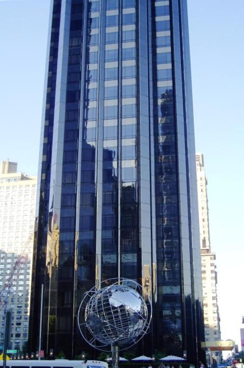 Trump International Hotel and Tower